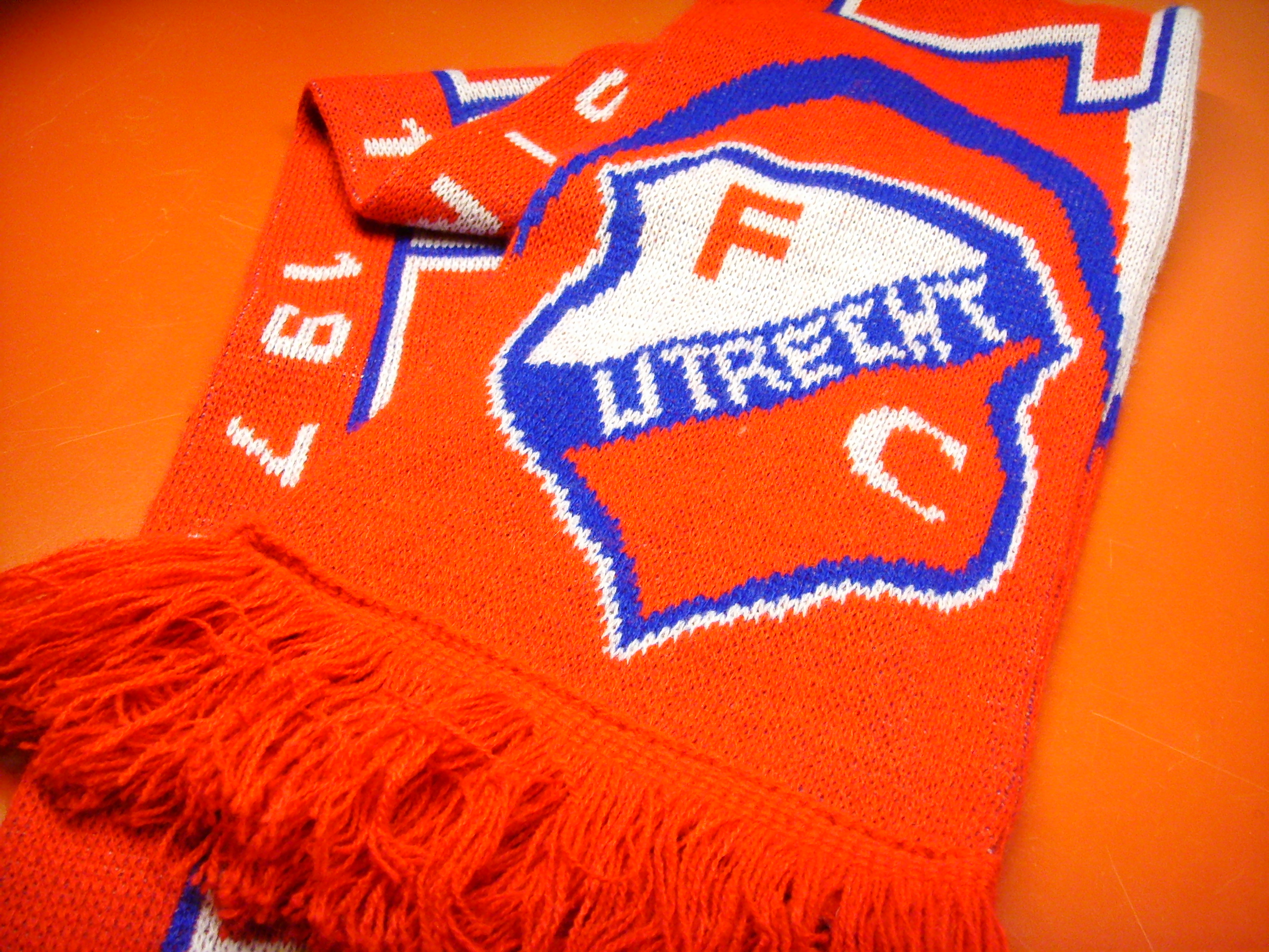 Logo of the Dutch football club FC Utrecht on a fan scarf